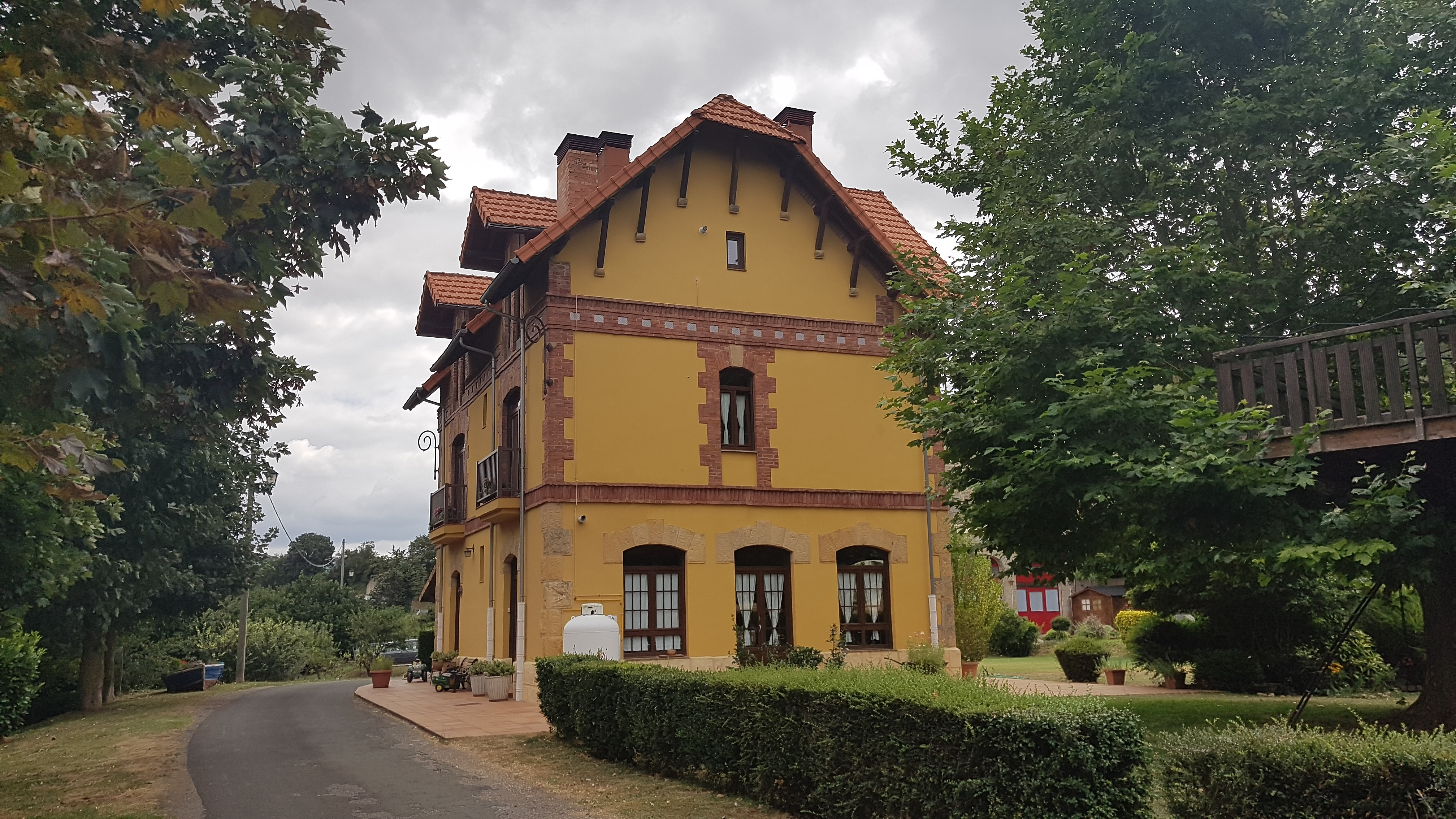 The station of Antoñana of the Anglo-Vasco-Navarro railway